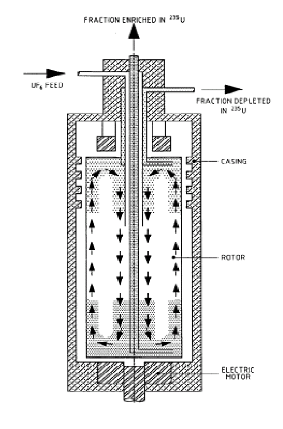 Public domain U.S. Nuclear Regulatory Commission image of a gas centrifuge, taken from the NRC fact sheet at: linked to from HTML version of the fact sheet at